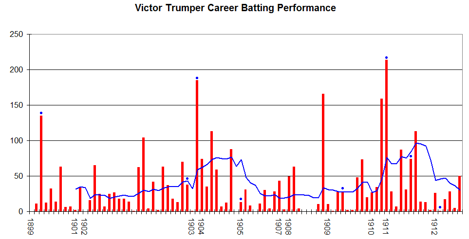 This graph details the Test Match performance of Victor Trumper. It was created by Raven4x4x. The red bars indicate the player's test match innings, while the blue line shows the average of the ten most recent innings at that point. Note that this average cannot be calculated for the first nine innings. The blue dots indicate innings in which Trumper finished not-out. This graph was generated with Microsoft Excel 2002, using data from Cricinfo and .au.